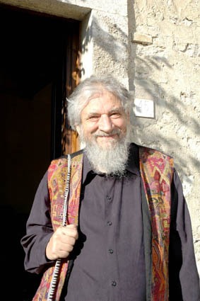 Claudio Naranjo